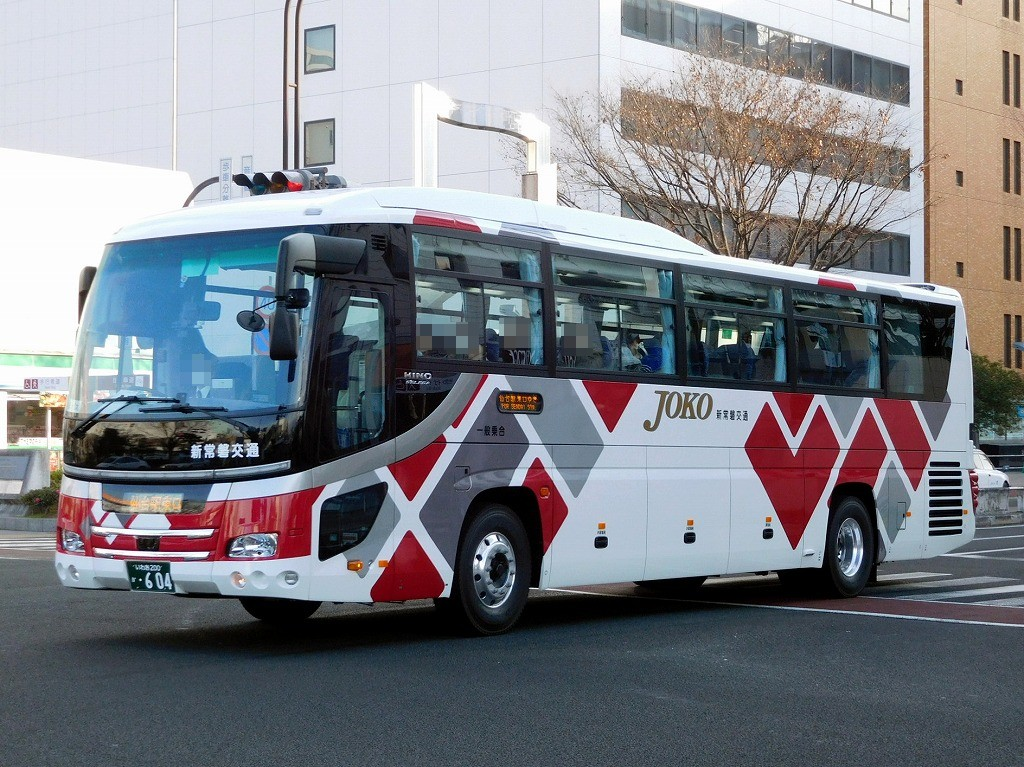 New-joban-kotsu Hino S'elega HD (QTG-RU1ASCA） highwaybus "Iwaki-Sendai!"